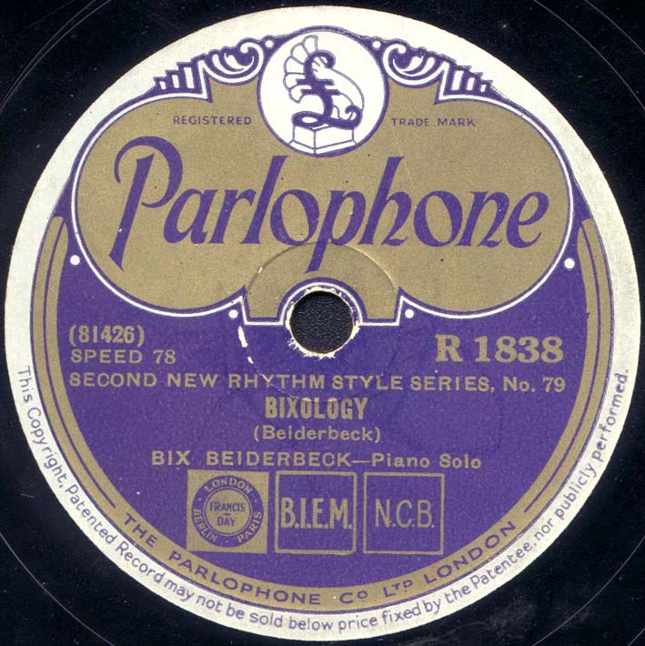 British Parlophone record label on a 1930s reissue of a piano solo by Bix Beiderbecke (originally released on the Okeh label in the U.S. in 1927)